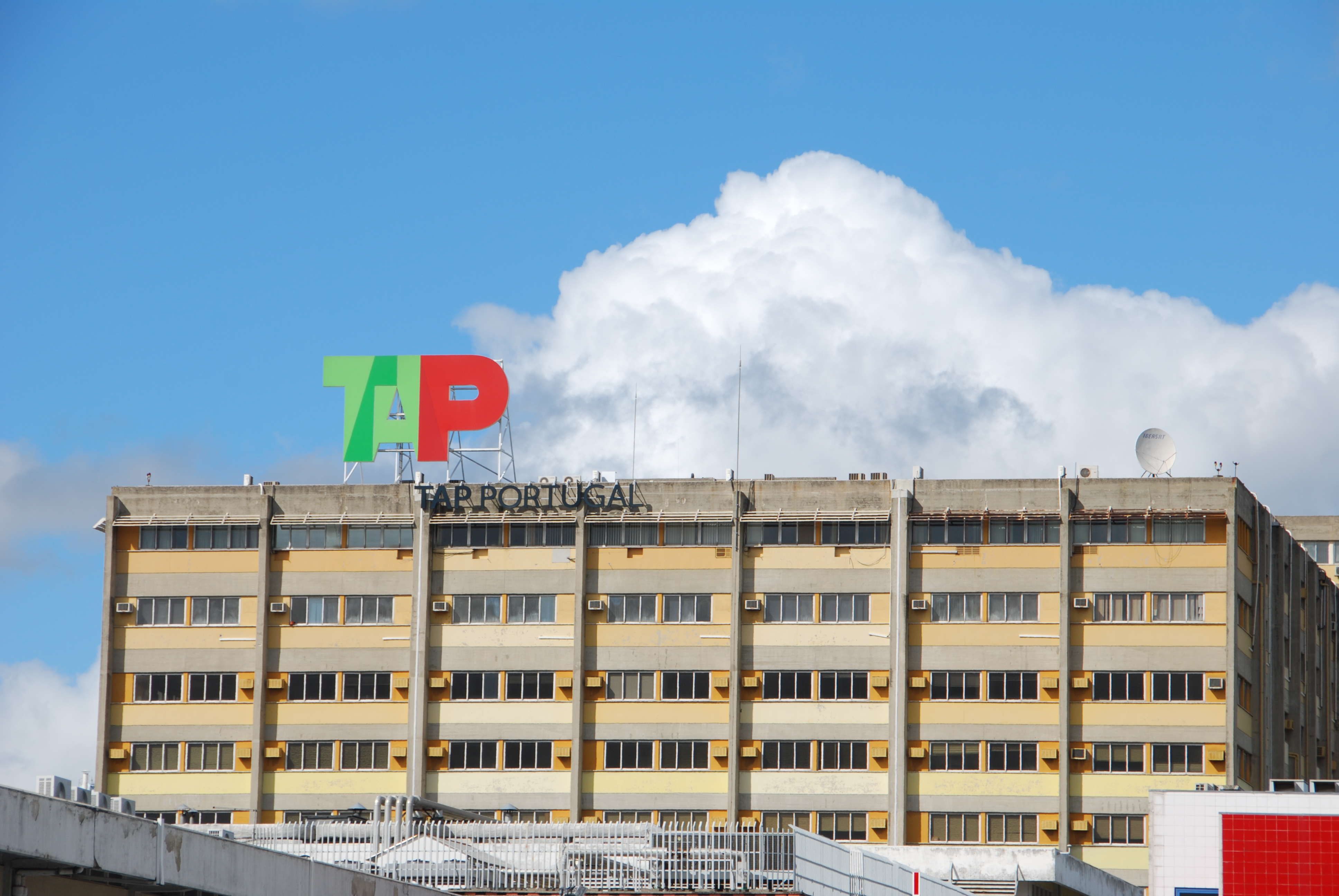 The head office of TAP Portugal, Building 25